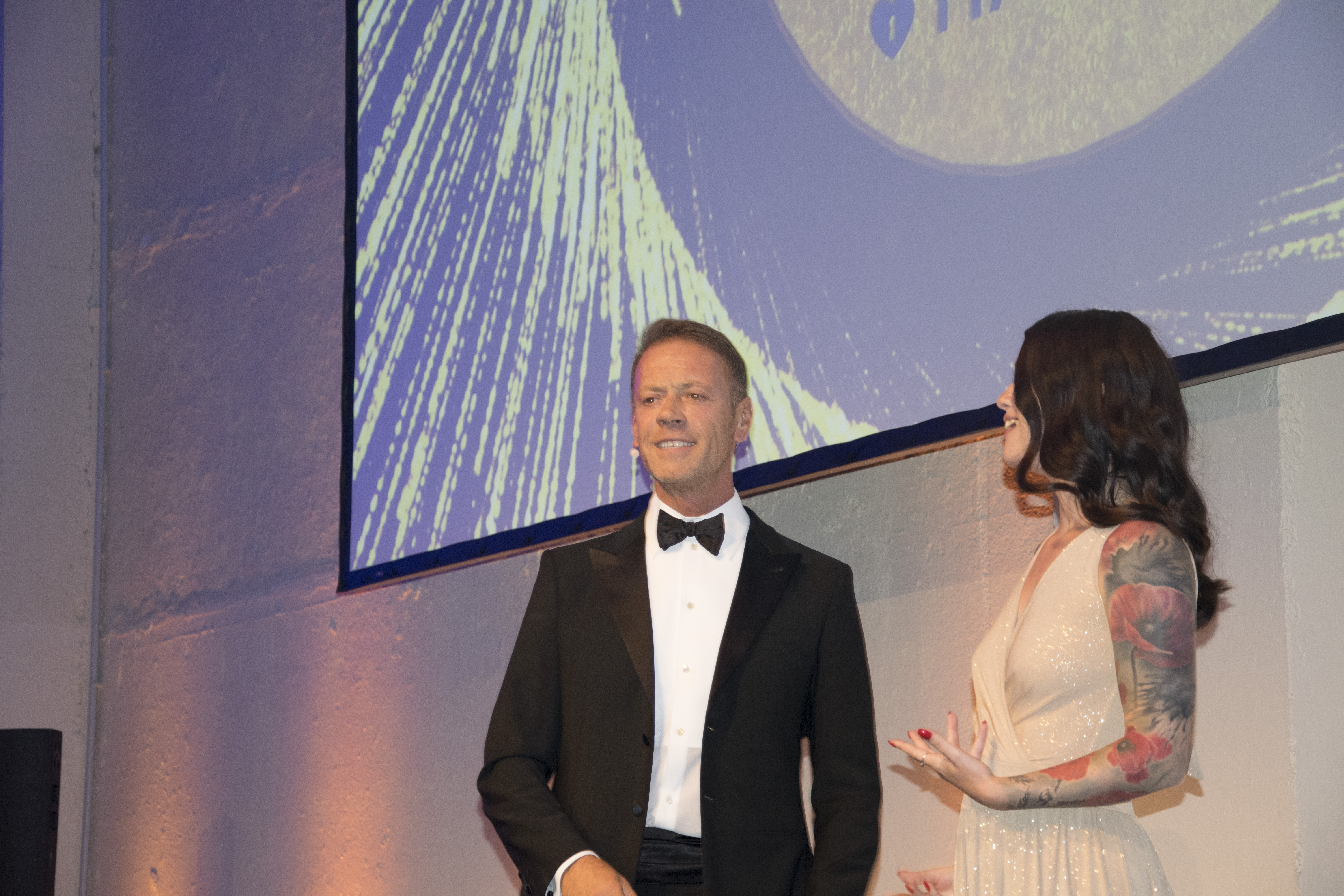 Rocco Siffredi and Misha Cross at the 2019 Xbiz Europa Awards in Berlin